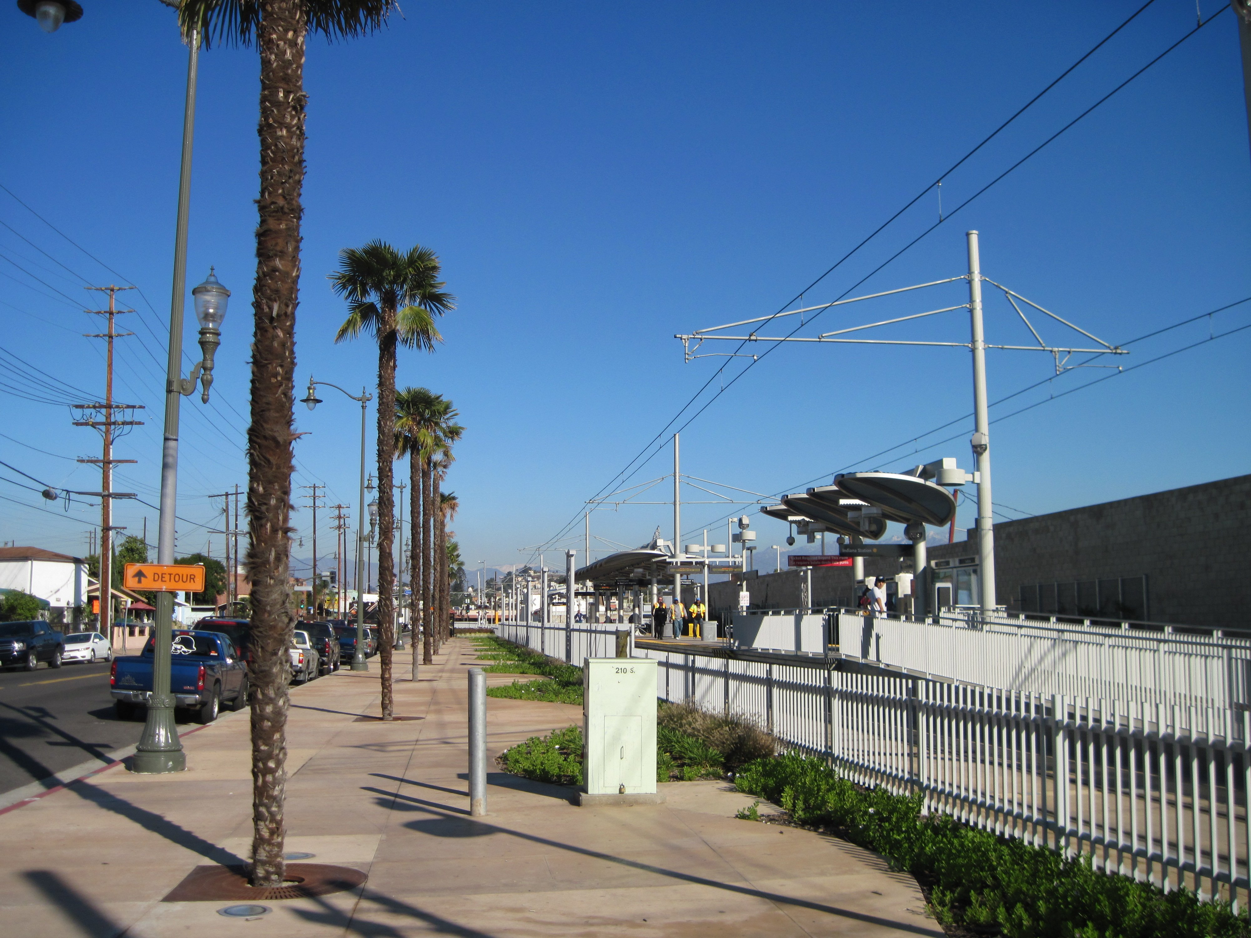 The Los Angeles County Metropolitan Transportation Authority's Indiana station, serving the Metro Gold Line in Los Angeles, California, USA.